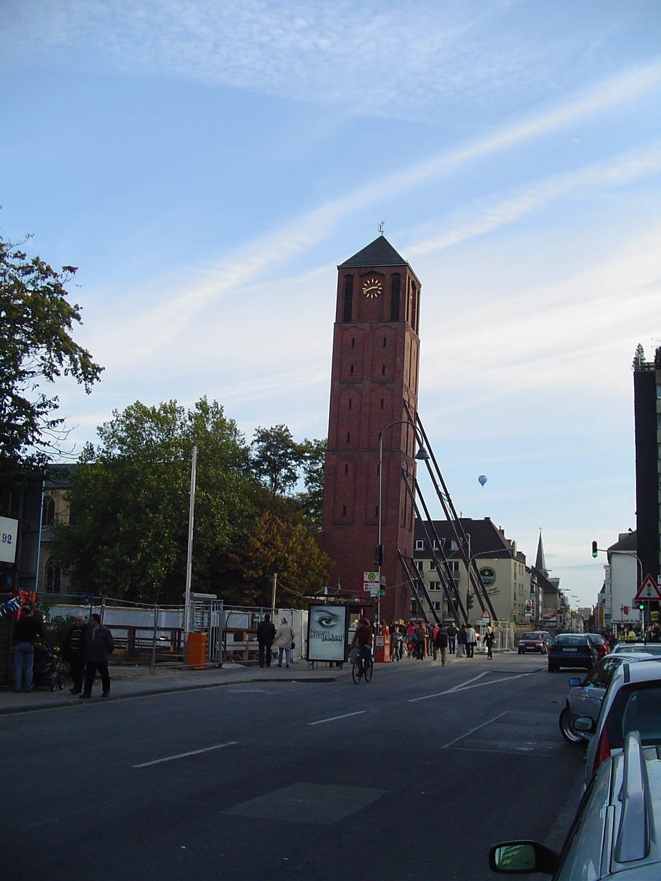 St. Johan Baptist Church tower in Cologne, Germany